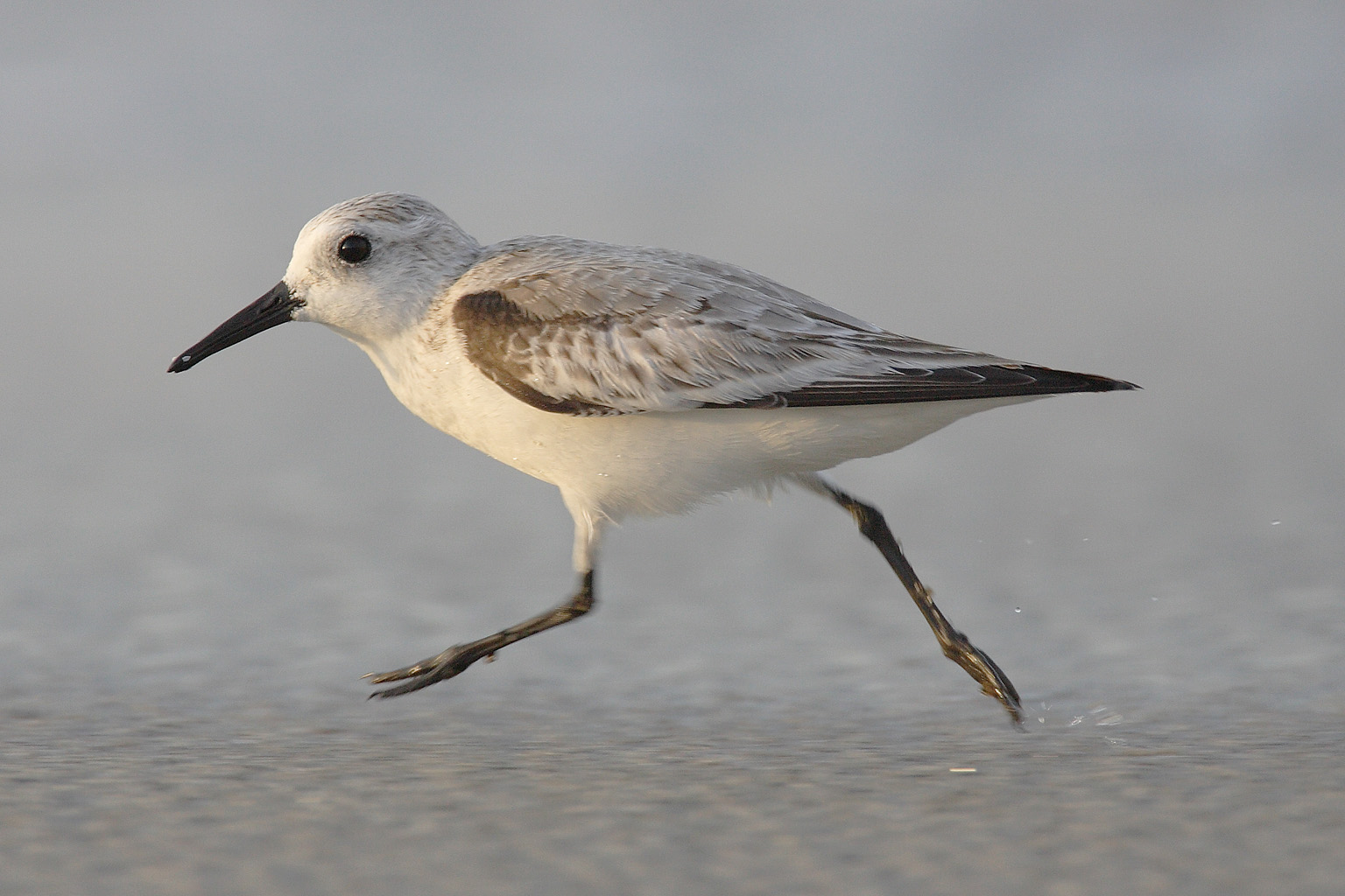 Sanderling (Calidris alba), Farallon, Panama, 2005 December